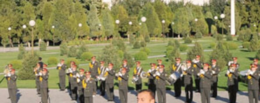 An Uzbek Army Band at the independence monument in the capital